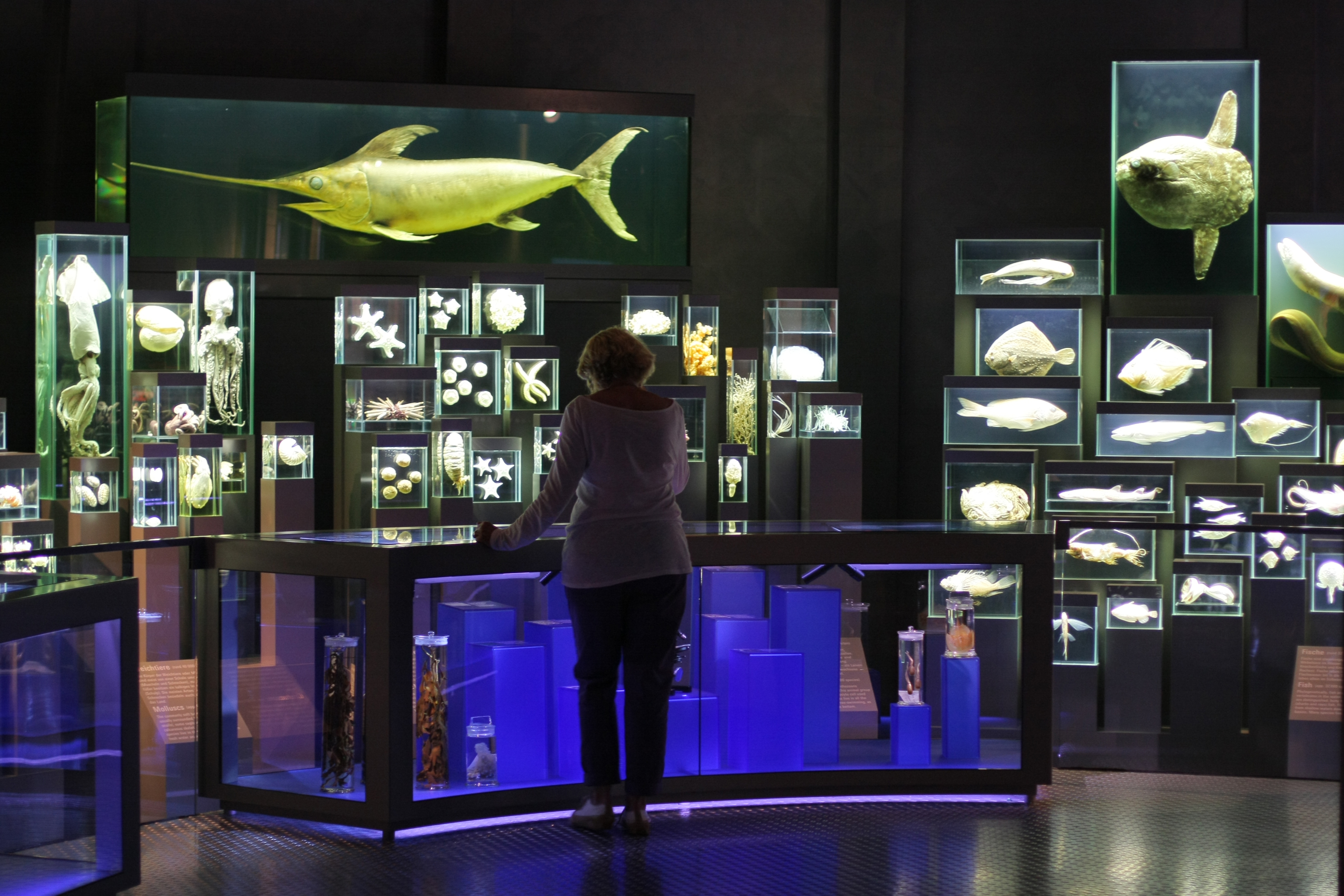 Exhibition Ocean Exploration and Utilization in the Ozeaneum Stralsund, Germany